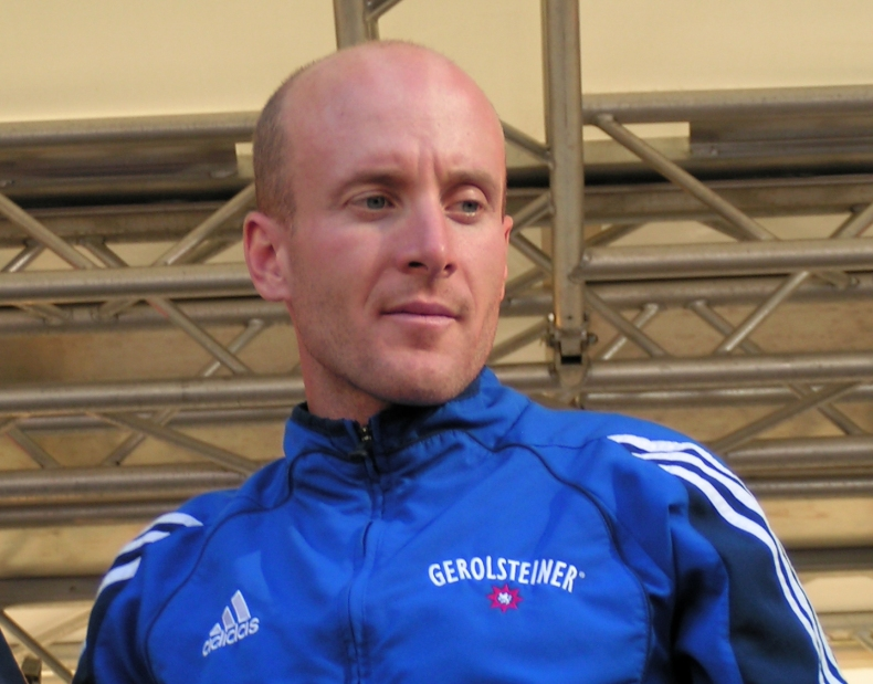 The American racing cyclist Levi Leipheimer at the team presentation for the Deutschland Tour 2006 in Düsseldorf, Germany.